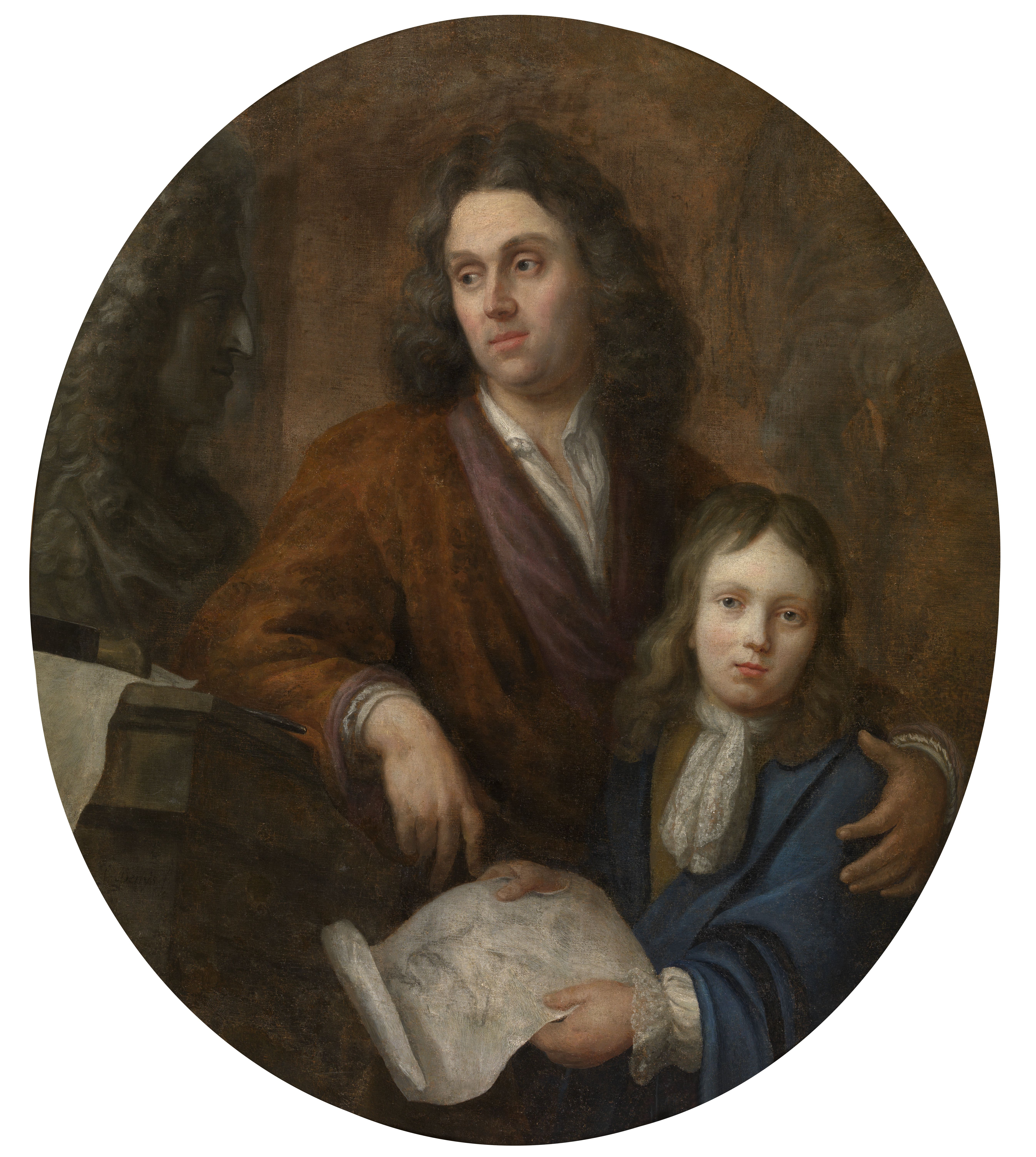 Jacob Denys, The sculptor William Kerricx and his son Willem Ignatius, oil on canvas, 115 x 97.5 x 7,5 cm, Royal Museum of Fine Arts Antwerp